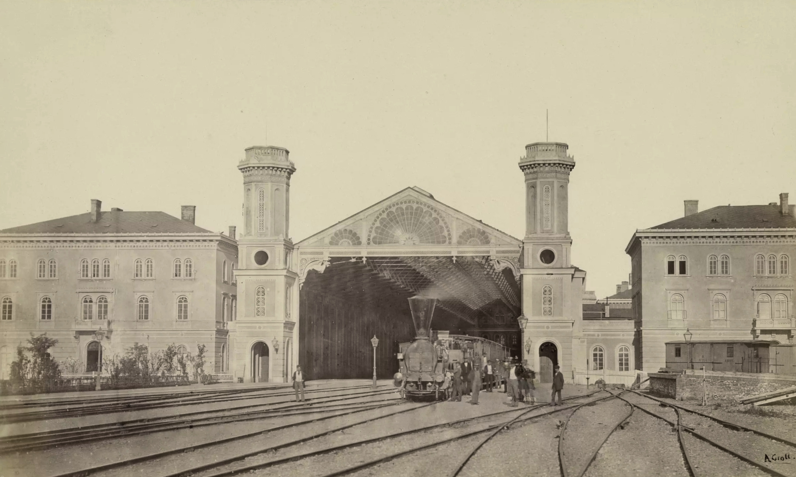 Vienna (Austria) West Railway Station, train shed